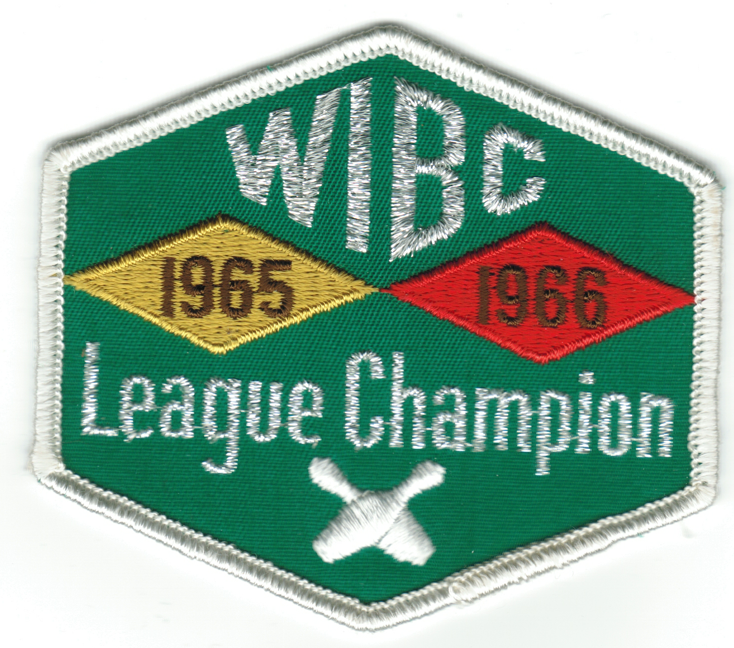 Awarded to Olivia C. Reekie a League Champion emblem from the 1965-1966 Women's International Bowling Congress competition.